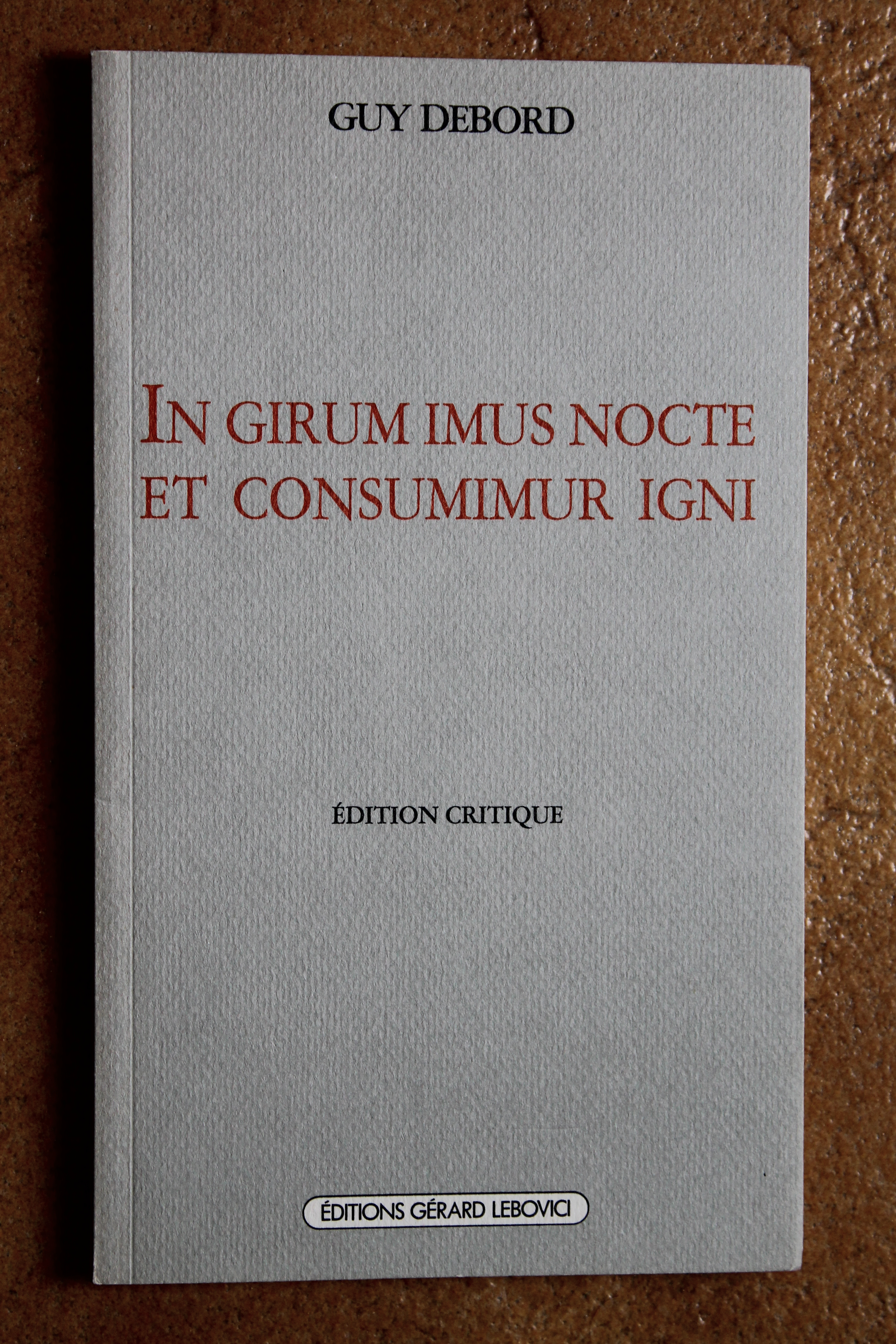 In girum imus nocte et consumimur igni by Guy Debord, édition critique (Éditions Gérard Lebovici, 1990).